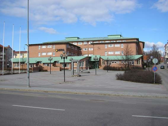 From enwp Ljusdal Municipality building